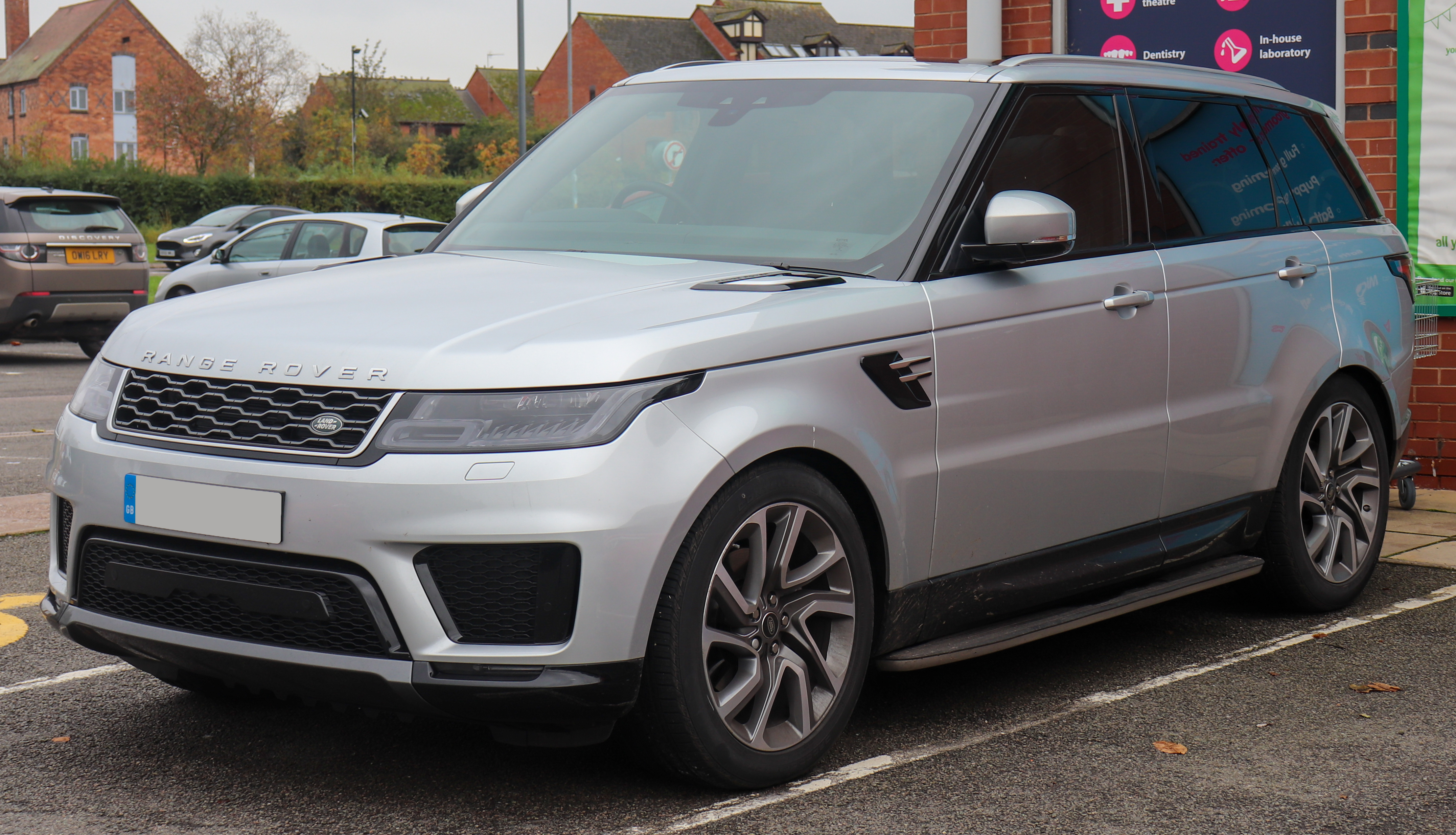 2019 Land Rover Range Rover Sport HSE SDV6 3.0 Front Taken in Leamington Spa